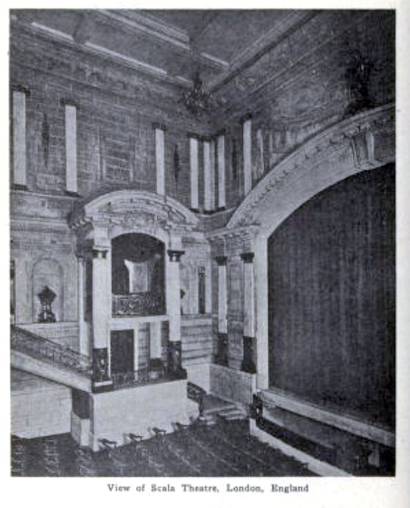 Interior View of the Scala Theatre, London - 1917